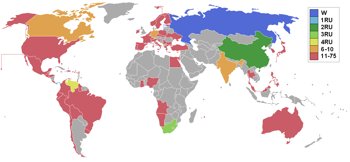 image created by Joey80